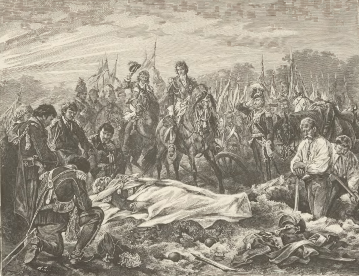 The death of Mohort